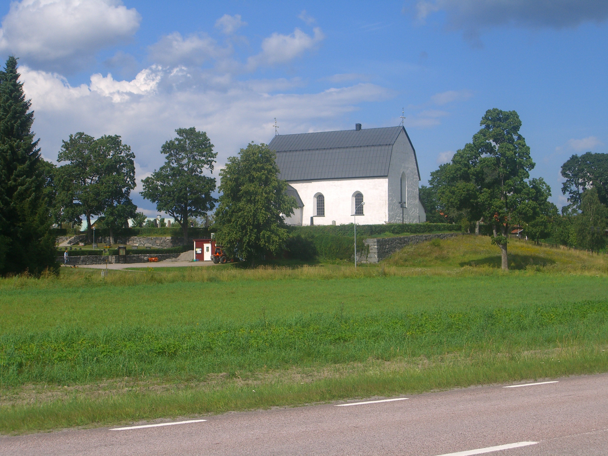 The Church at Tolfta, Tierp Municipality